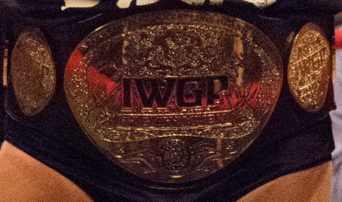 Karl Anderson making his ring entrance at Border City Wrestling's East Meets West show at St. Clair College in Windsor. The belt around his waist is the IWGP Tag Team Championship